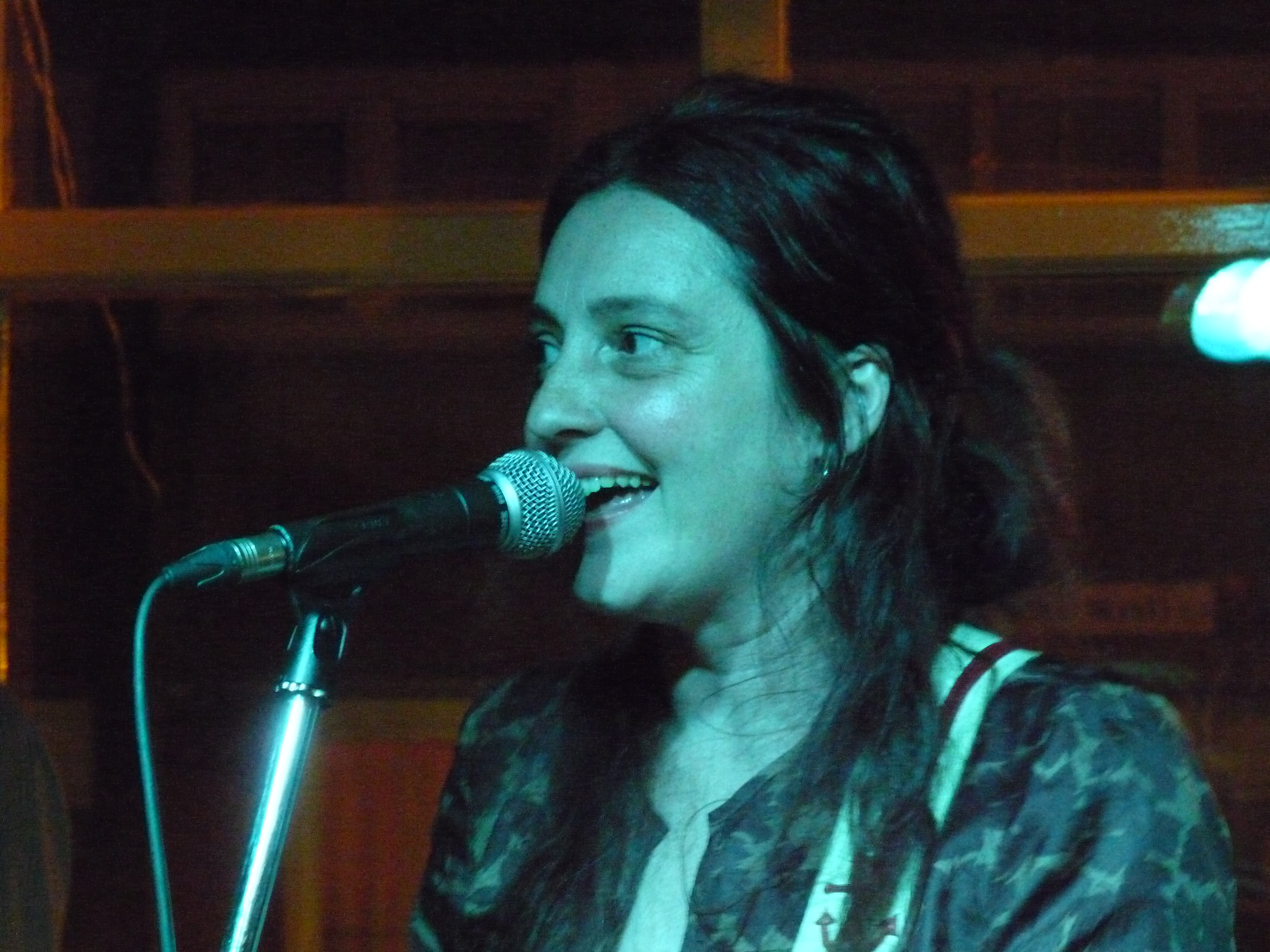 Holly Golightly- London, February 15 2009